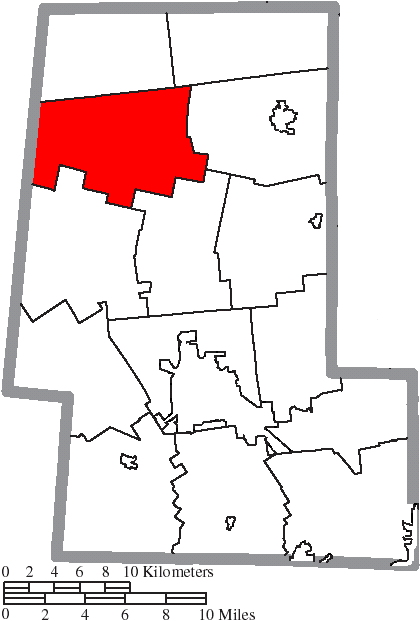 Map of the municipal and township boundaries of Union County, Ohio, United States, as of the 2000 census, with the location of York Township highlighted. Township borders are shown only in unincorporated areas in order to differentiate incorporated and unincorporated areas more clearly.